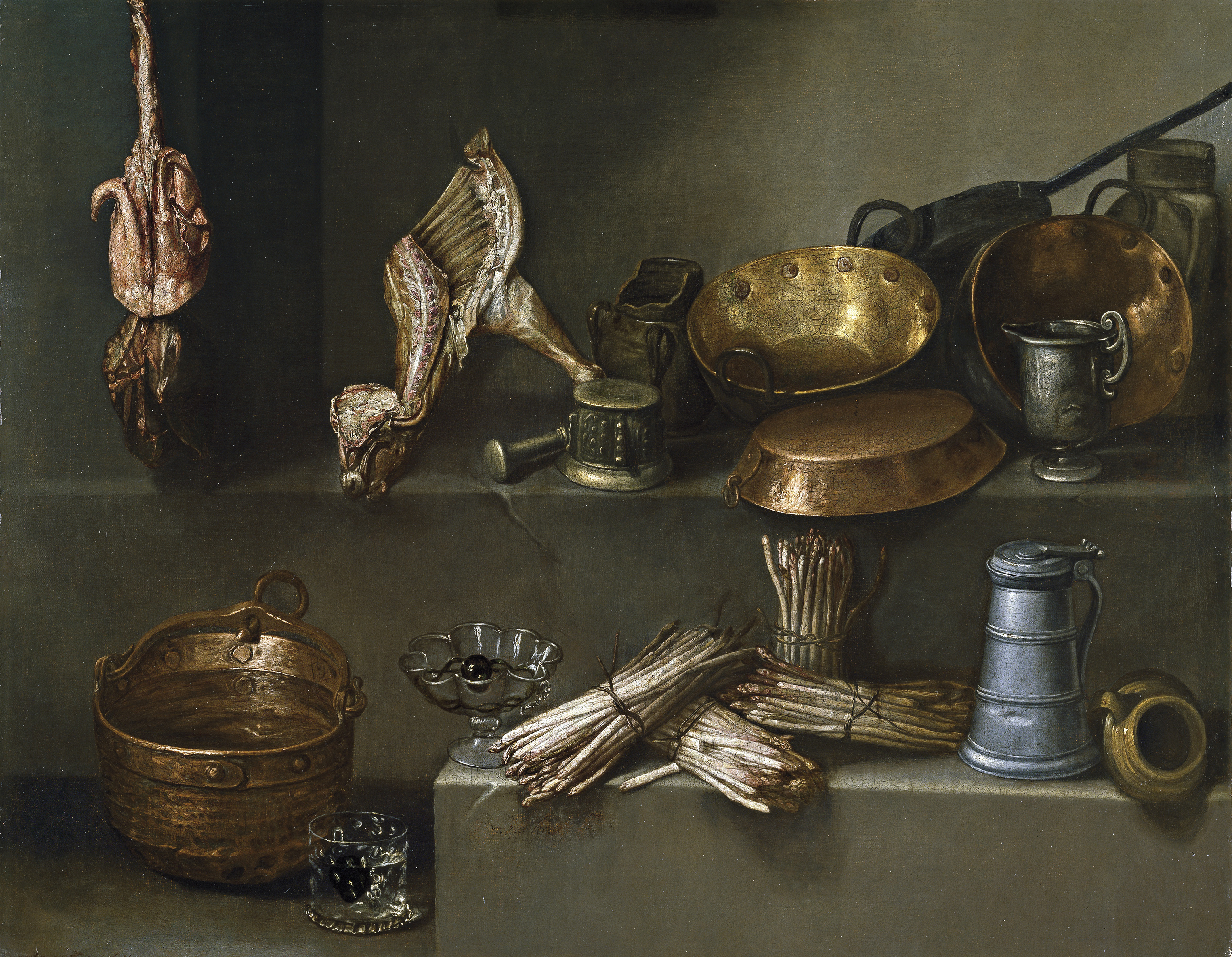 Still Life